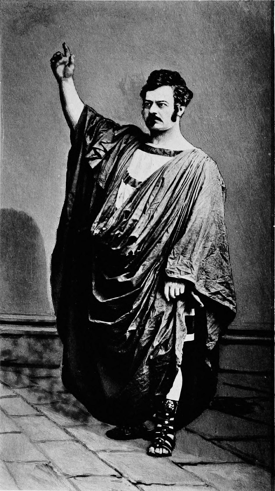 Actor Edwin Forrest as Damon, from the play Damon and Pythias